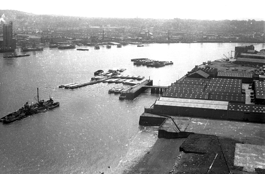 Millwall Wharf, Cubitt Town, seen from Kelson House, 1974. Straight ahead on the right is Cubitt Town Wharf. Across the river is Enderby's Wharf.